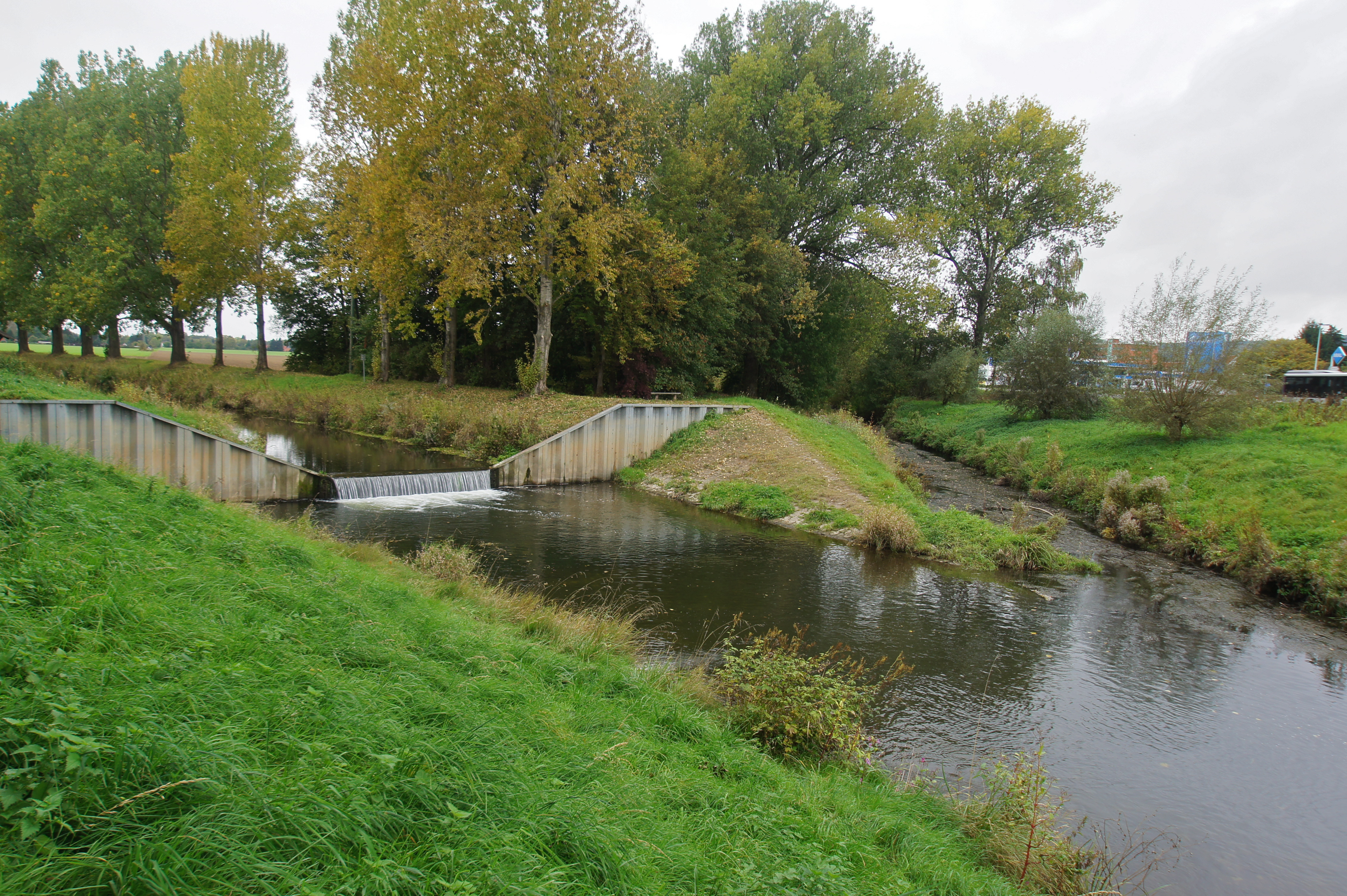 Einbeck, Germany: The Mühlenkanal joins de river Ilme